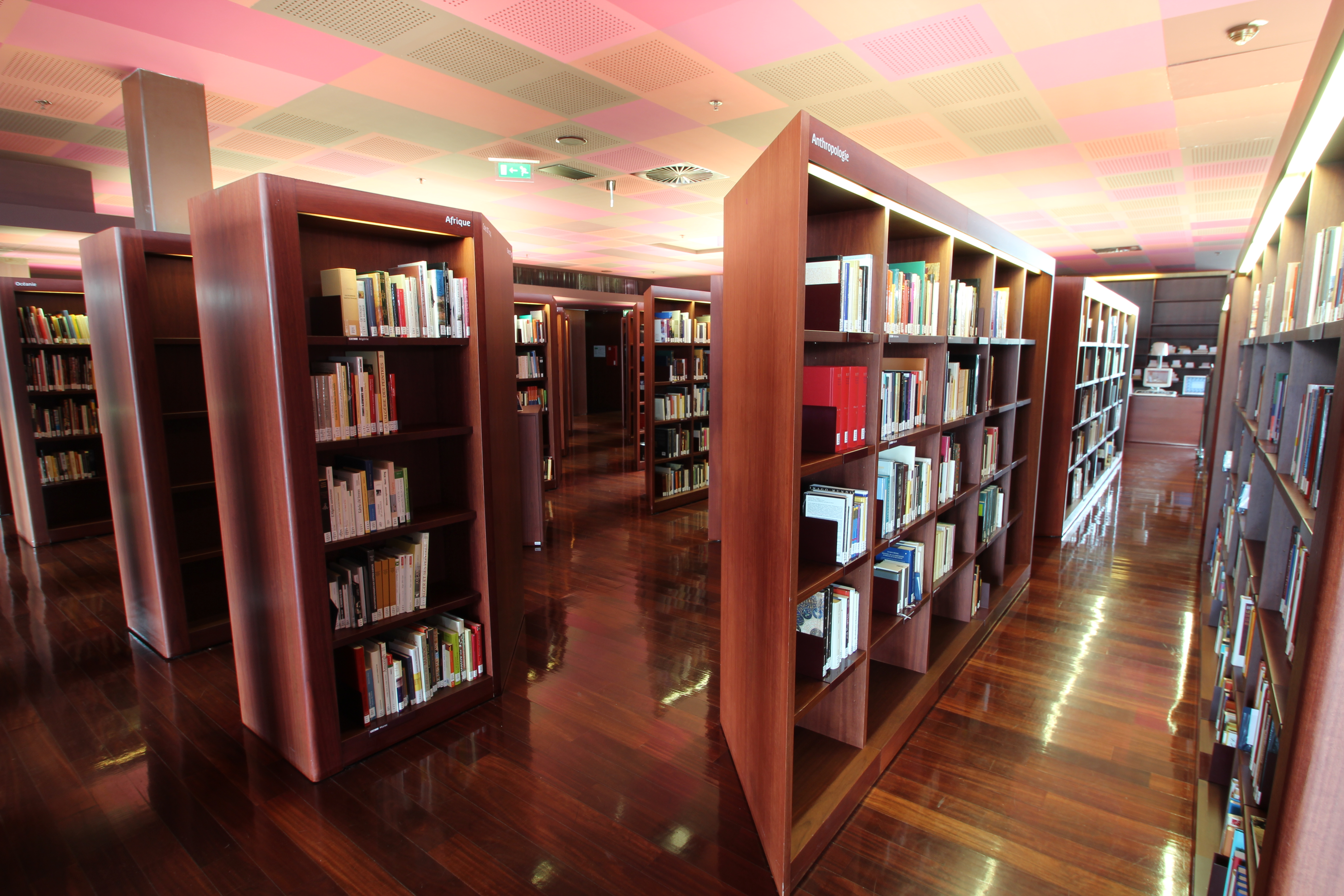 View of the study and research library at the Quai Branly Museum in Paris, France.